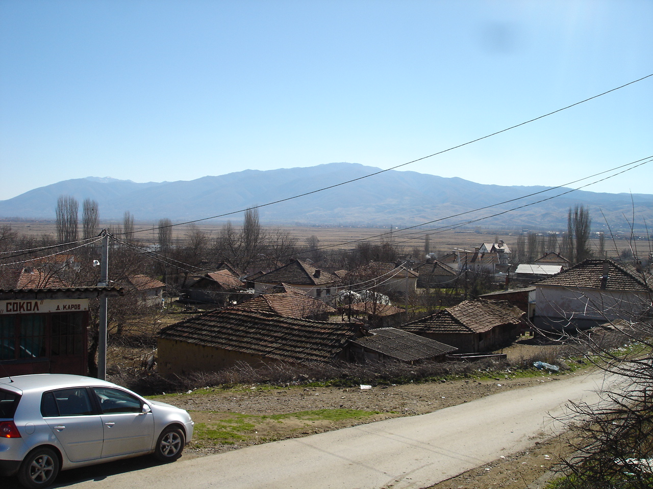 village village of Sokolarci, near Kočani, Macedonia